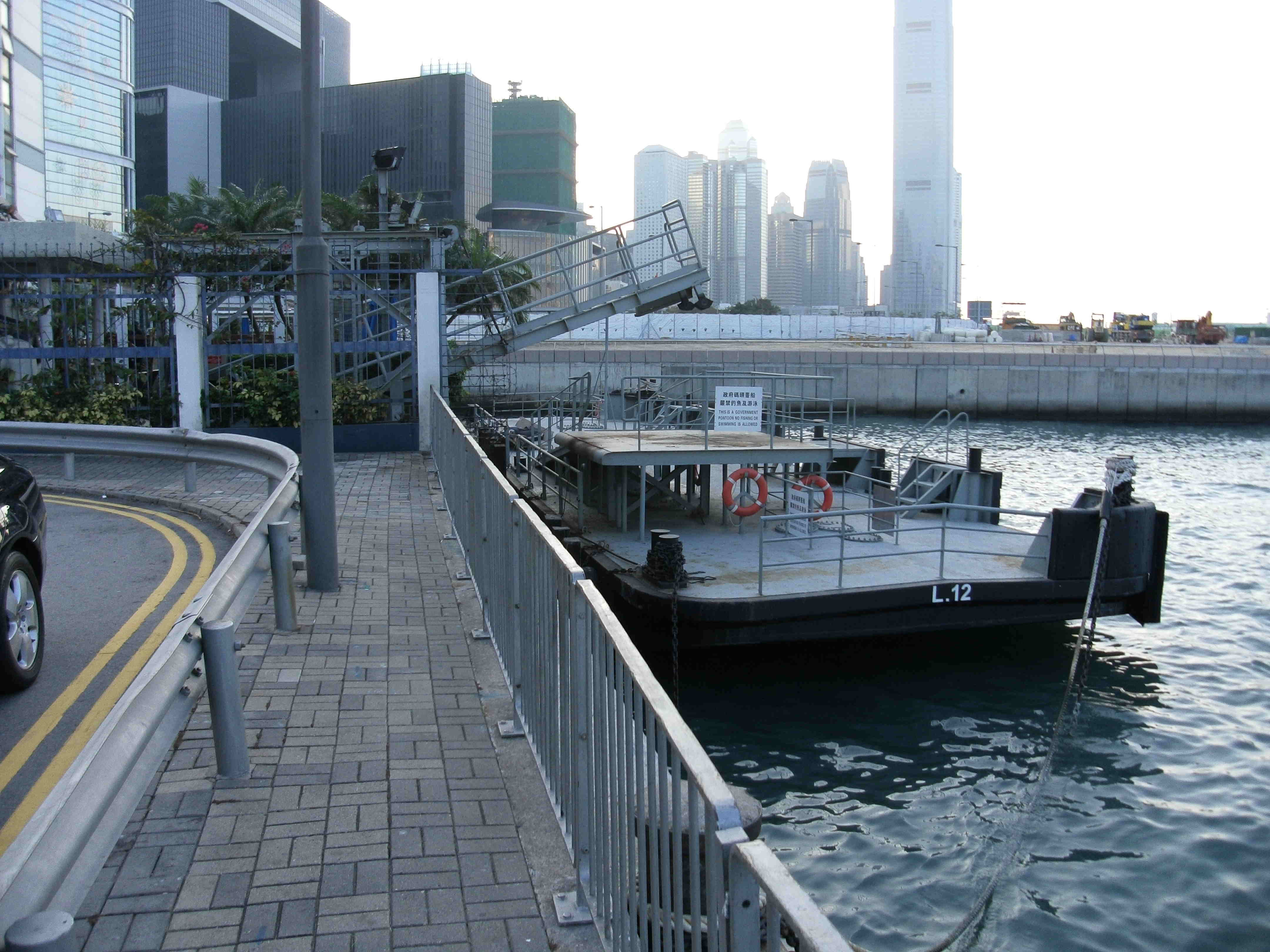 Fenwick Pier (Pontoon) in Hong Kong